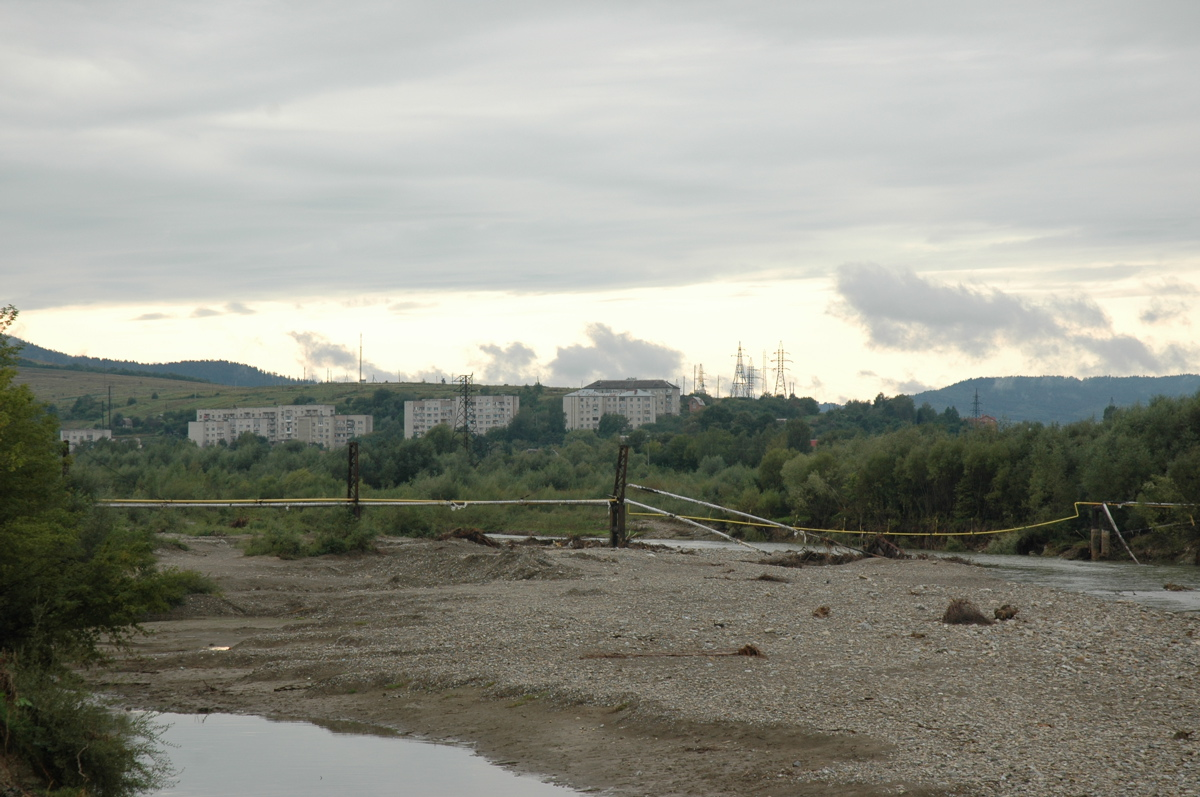 A view of Staryi Sambir with the Dnister river (Lviv oblast, Ukraine)